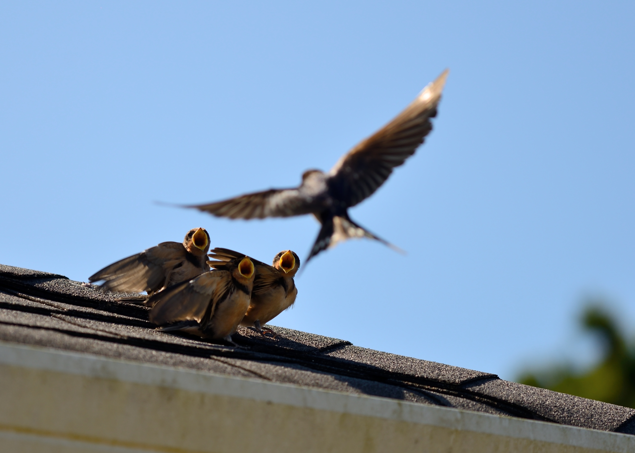 Rooftop feeding, in florence oregon